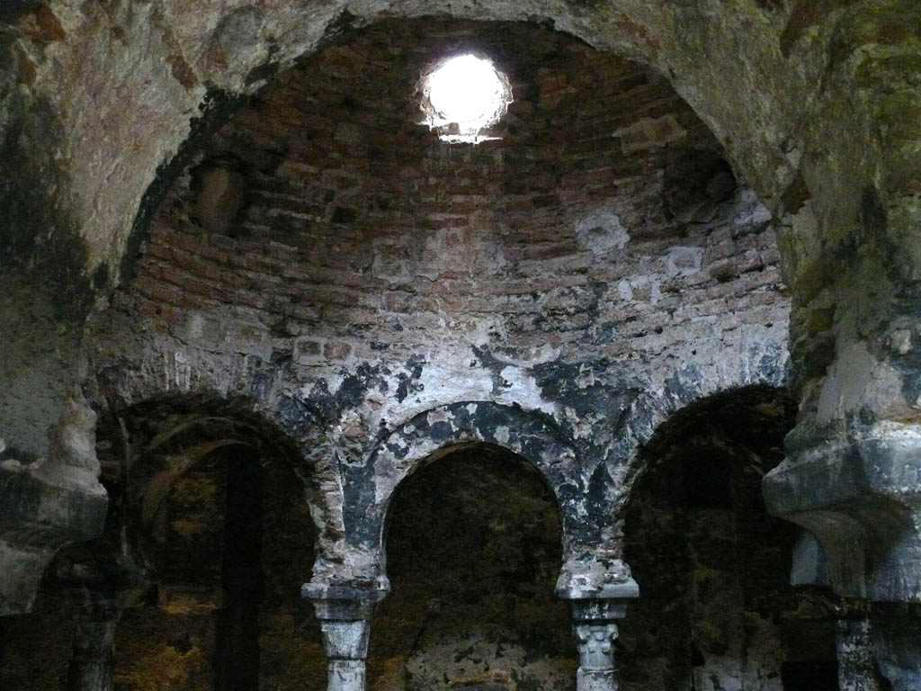 Main room of the hot bath